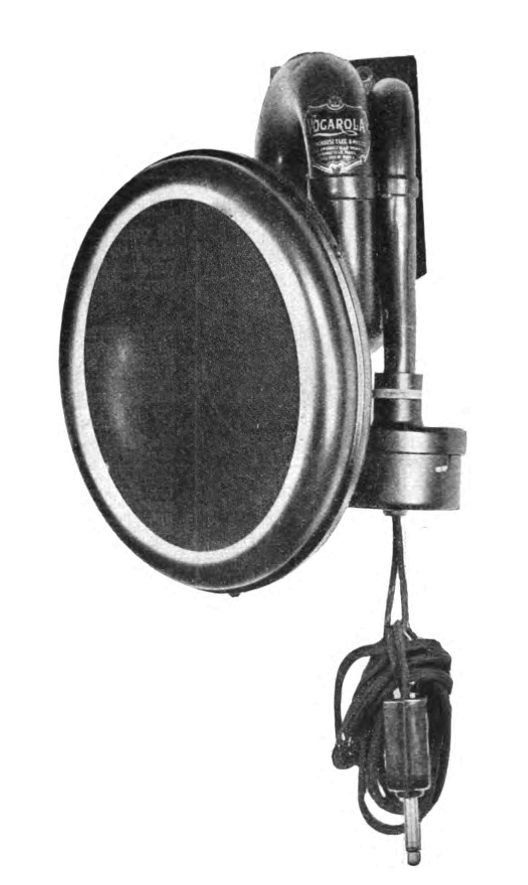 Westinghouse Vocarola loudspeaker, an early radio loudspeaker sold between January 1922 and September 1923. Like most early speakers it was a horn loudspeaker, which used a coiled brass horn to amplify the sound produced by a small metal diaphragm vibrated by an electromagnet in the small cylindrical box (right, near bottom). It could either stand on a table or be attached to a wall. The cord plugged into the earphone jack of a radio. Two models were made: the Type I shown here, and the Type LV. It initially sold for $30, reduced to $18 the next year. The speaker was designed by Frank Conrad from an automobile horn. When radio broadcasting suddenly began in 1920, creating a demand for family listening, there were not many speakers on the market; most radios used earphones. Conrad tried attaching a reproducer from a Baldwin telephone earpiece to the coiled brass sound duct from an automobile horn. It worked well enough that he kept this design. The original mica diaphragm of the earpiece was replaced with a metal diaphragm to handle the higher power. (Information from Eric Wenaas (2007) Radiola: The Golden Age of RCA 1919-1929, Sonoran Publishing, p.142-143 )